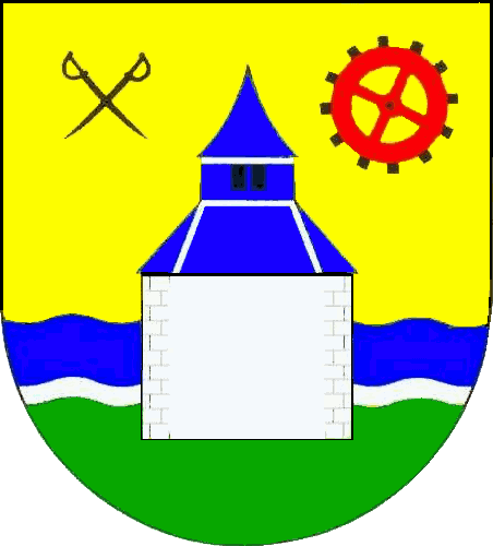 Coat of arms of the municipality Oeversee in Schleswig-Holstein, Germany.